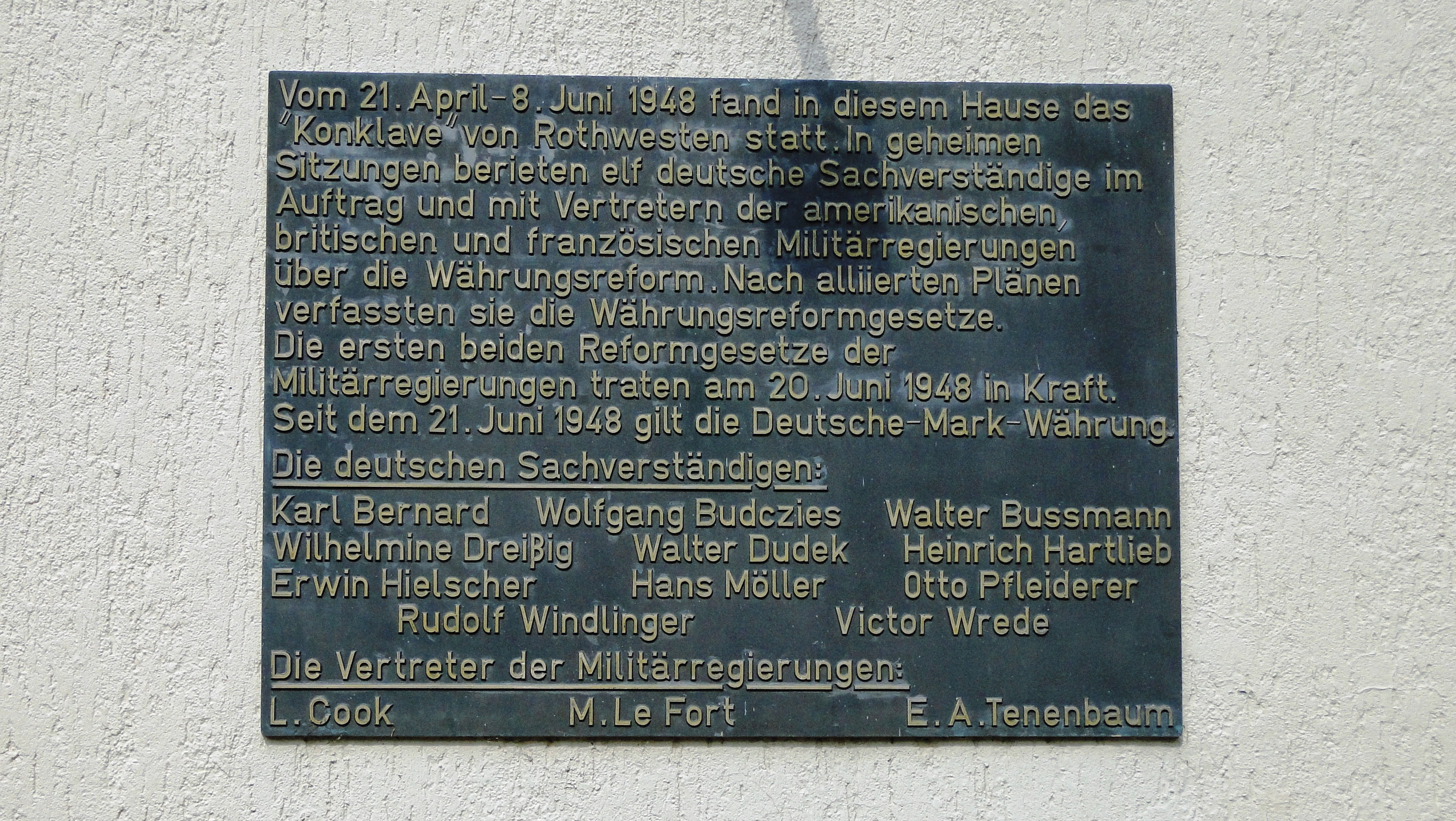 Plaque on Haus Posen at the former Fritz Erler Kaserne/Airfield Rothwesten at Fuldatal Rothwesten near Kassel, Germany. It describes the Rothwesten Conclave of 1948 (in German). Today the building is a museum. June 2015.